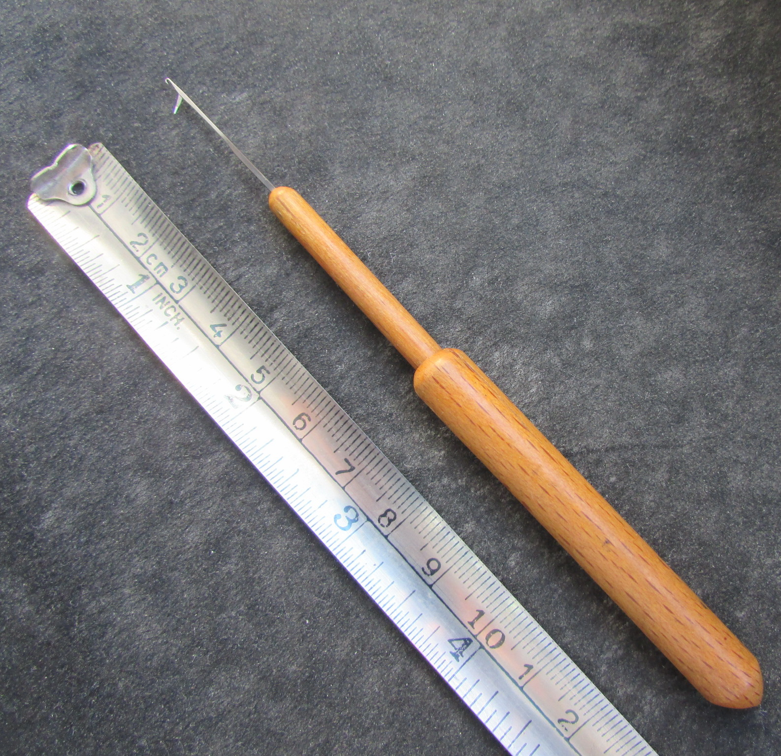 Needle for ladder mending